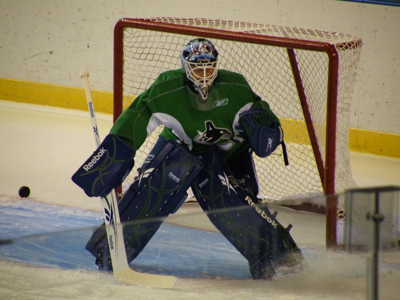 Andrew Raycroft, goaltender for the Vancouver Canucks of the National Hockey League